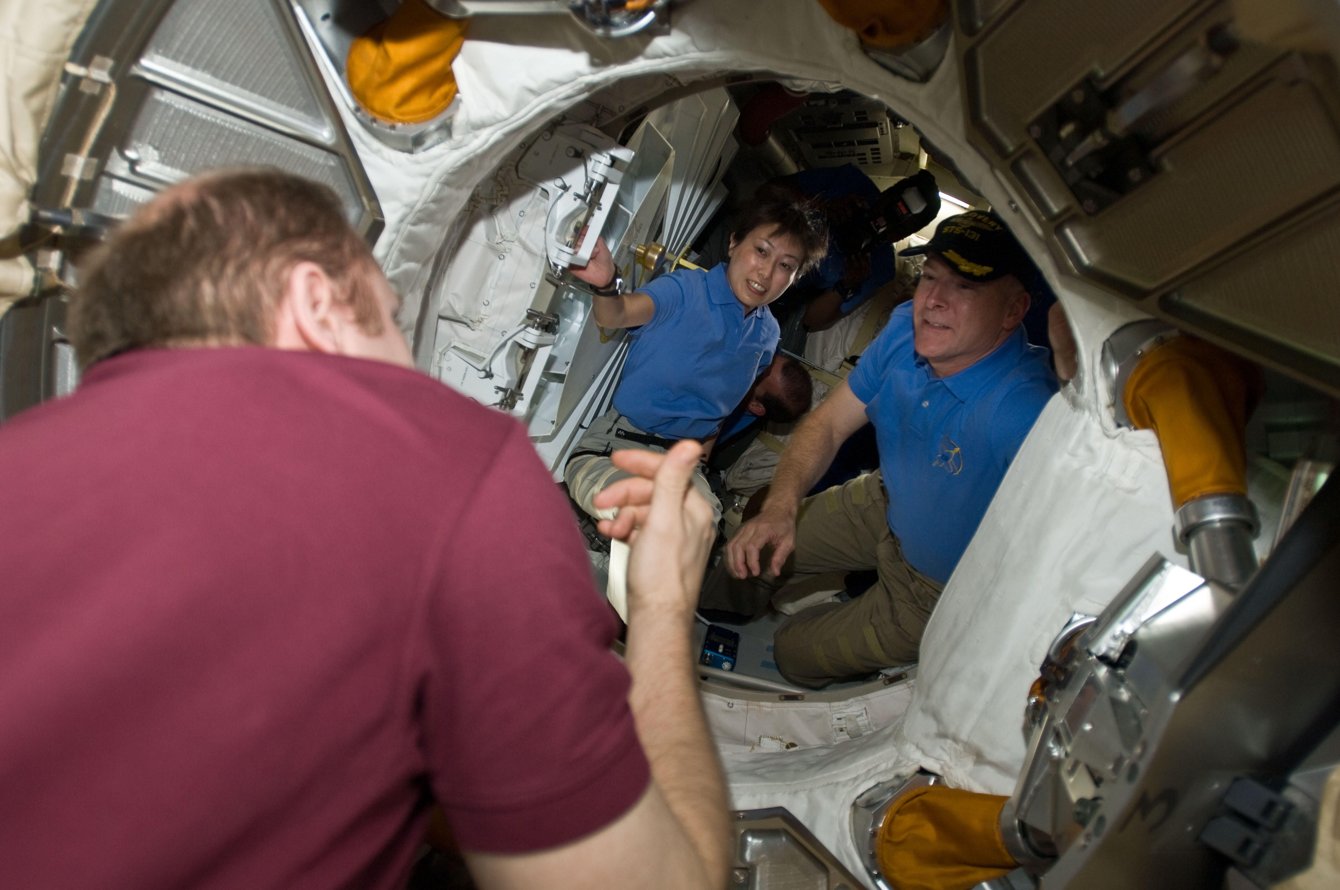 Russian cosmonaut Oleg Kotov (far left), Expedition 23 commander, prepares to greet the STS-131 crew as it comes aboard the International Space Station to spend several days in a number of busy joint activities for the two crews. Seen clearly in the hatch are astronaut Alan Poindexter, STS-131 commander, and Japan Aerospace Agency astronaut Naoko Yamazaki, mission specialist.